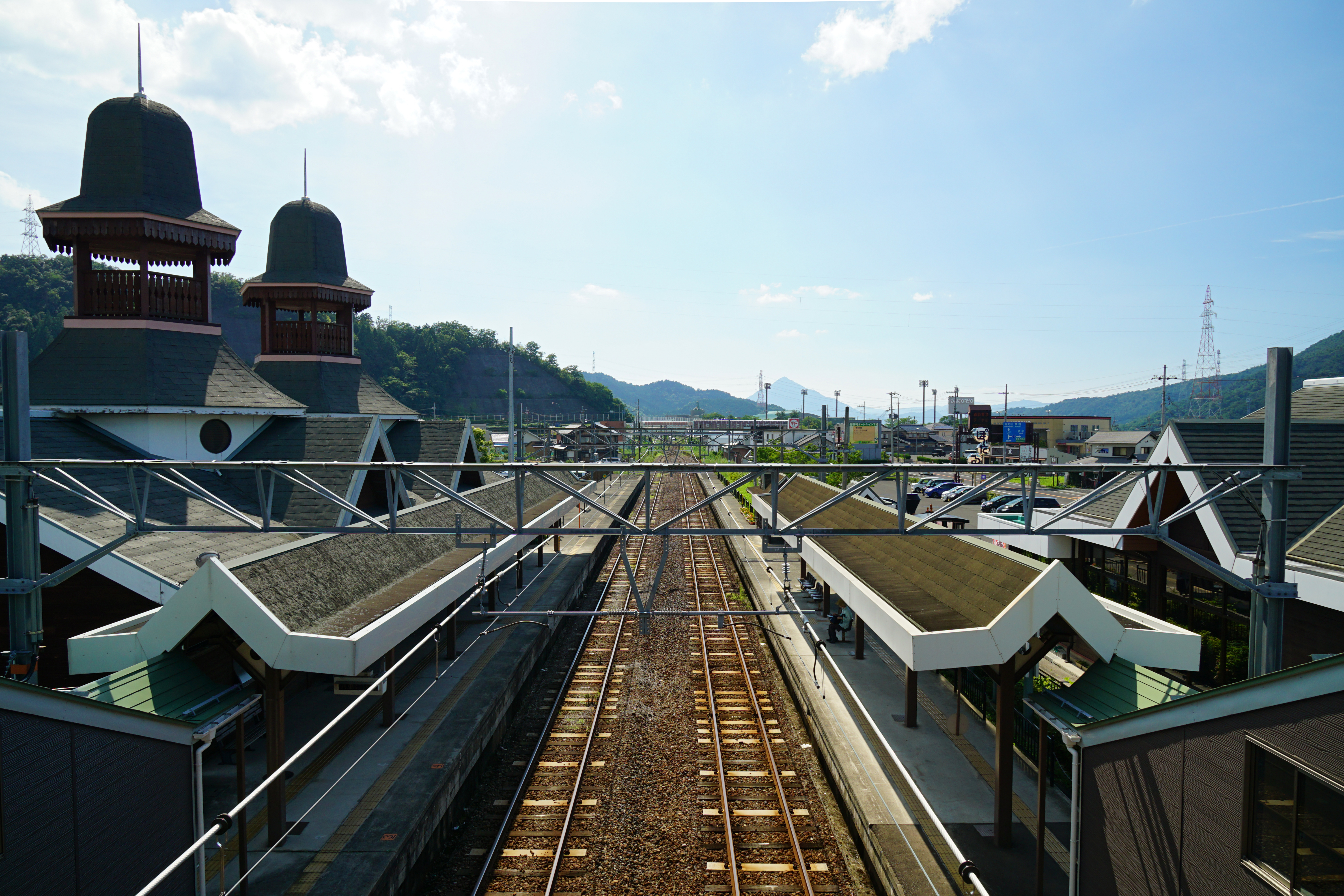 Wakasa-Hongō Station in Ōi, Fukui prefecture, Japan.